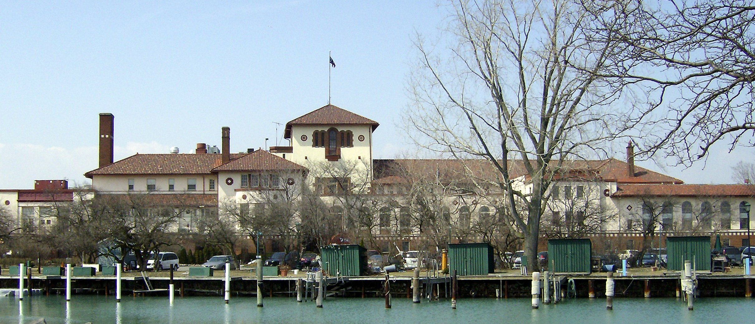 Detroit Yacht Club in Belle Isle Park, Detroit, Michigan, United States.